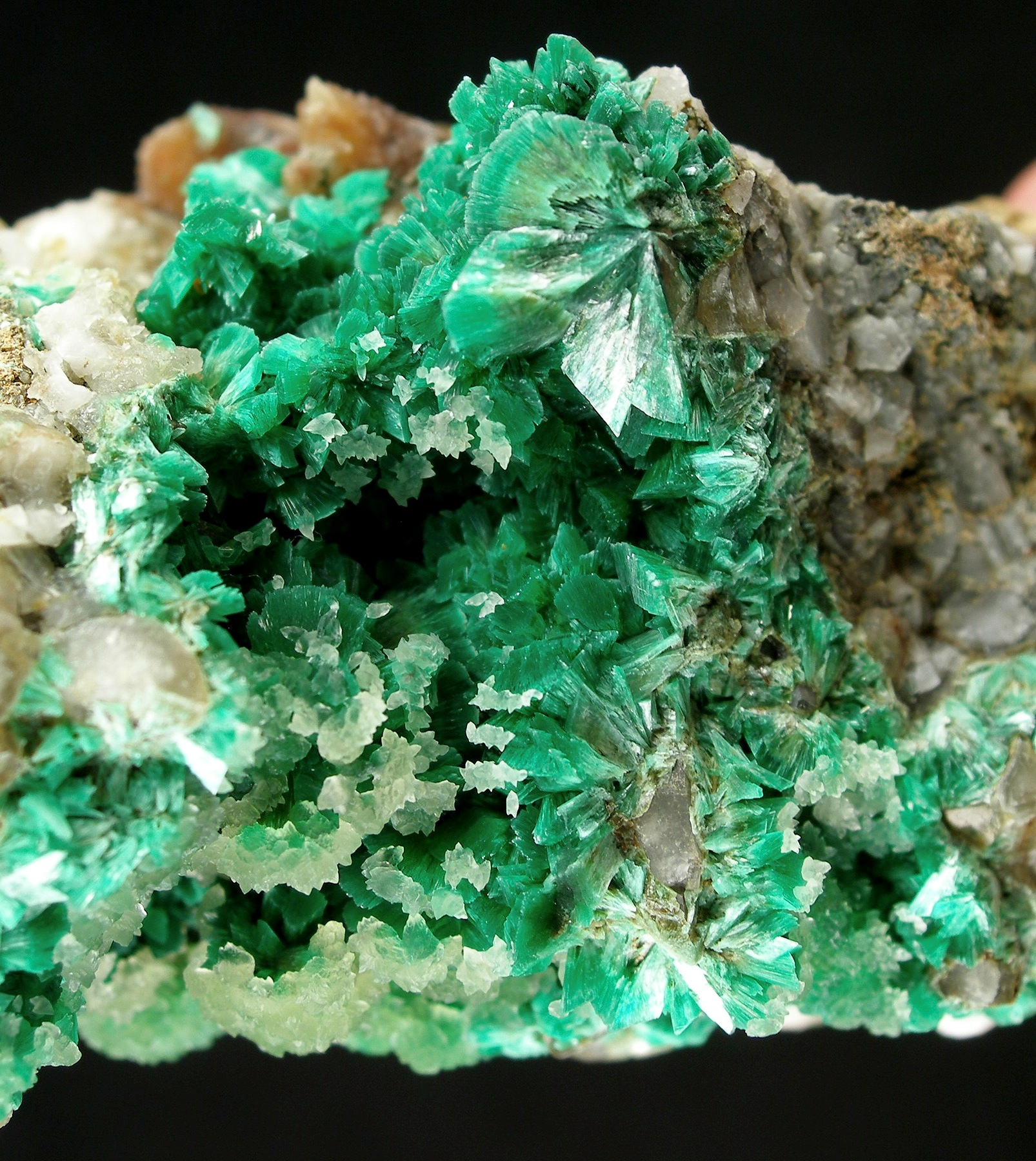 Annabergite, Smithsonite Locality: Km-3 Mine, Lavrion Mines, Lavrion (Laurion; Laurium), Lavrion District Mines, Lavrion (Laurion; Laurium) District, Attikí (Attica; Attika) Prefecture, Greece (Locality at ) Size: small cabinet, 8.3 x 5.4 x 4.4 cm Annabergite with Cuprian Smithsonite This is a MAJOR annabergite specimen with huge crystal clusters to nearly 1 cm, associated with translucent green cuprian smithsonite. Annabergite occurs at its best from this locality, though great specimens are few and far between, despite hundreds of years of collecting. For overall richness, crystal size, and exceptional crystal definition, this is an important and attractive specimen. I have not had a better one, in several decades of dealing in colorful European classics, for what its worth.